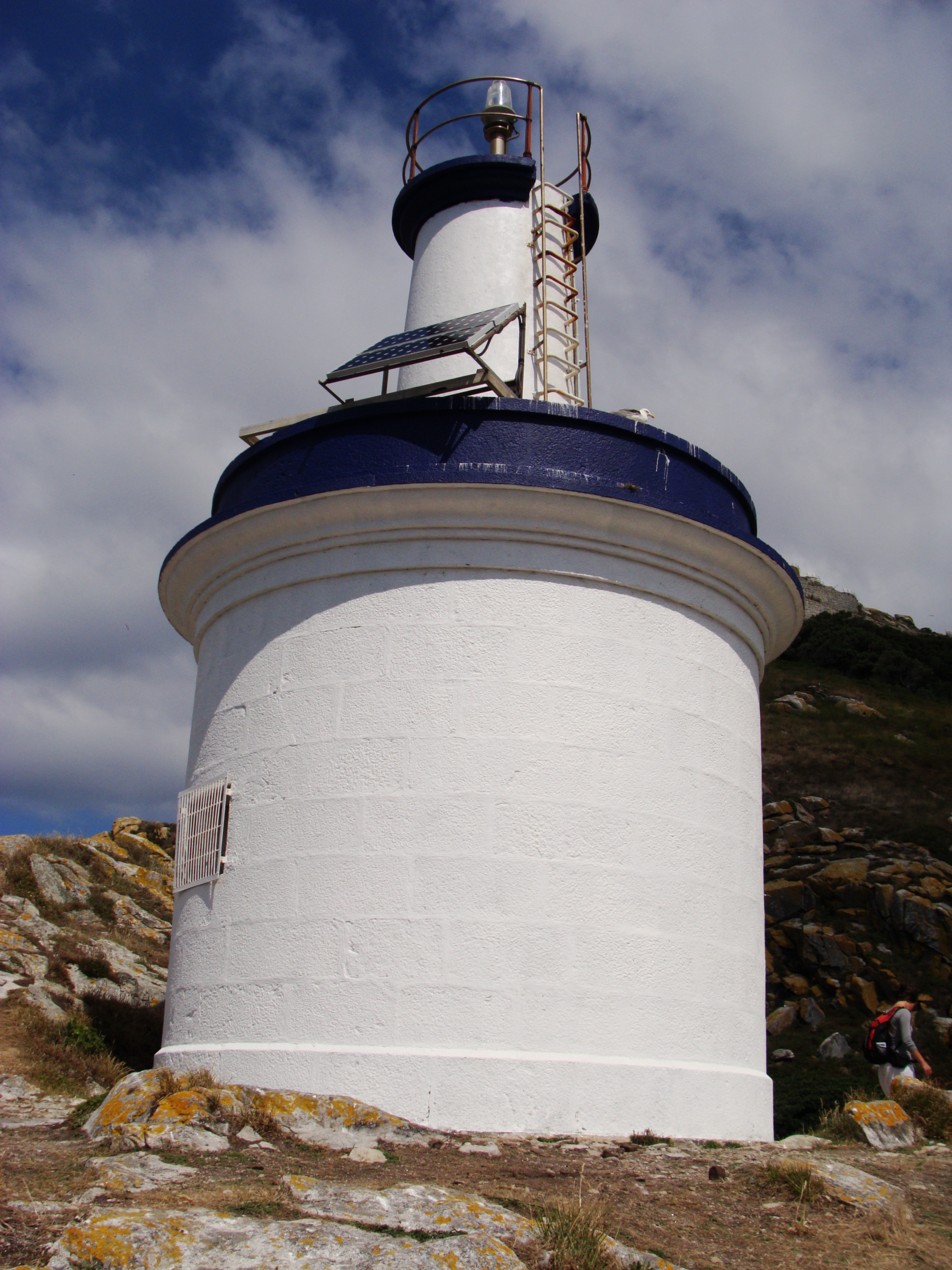 Faro da Porta, in Cíes Islands, Pontevedra, Galicia, Spain.